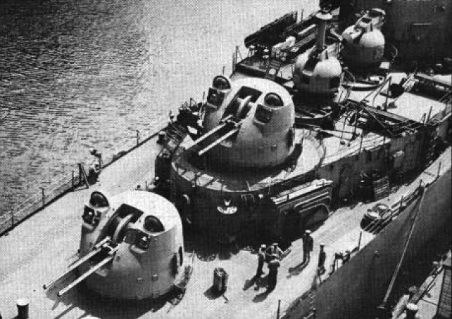 View of the 76 mm/70 naval guns aboard the U.S. Navy destroyer leader USS Norfolk (DL-1).